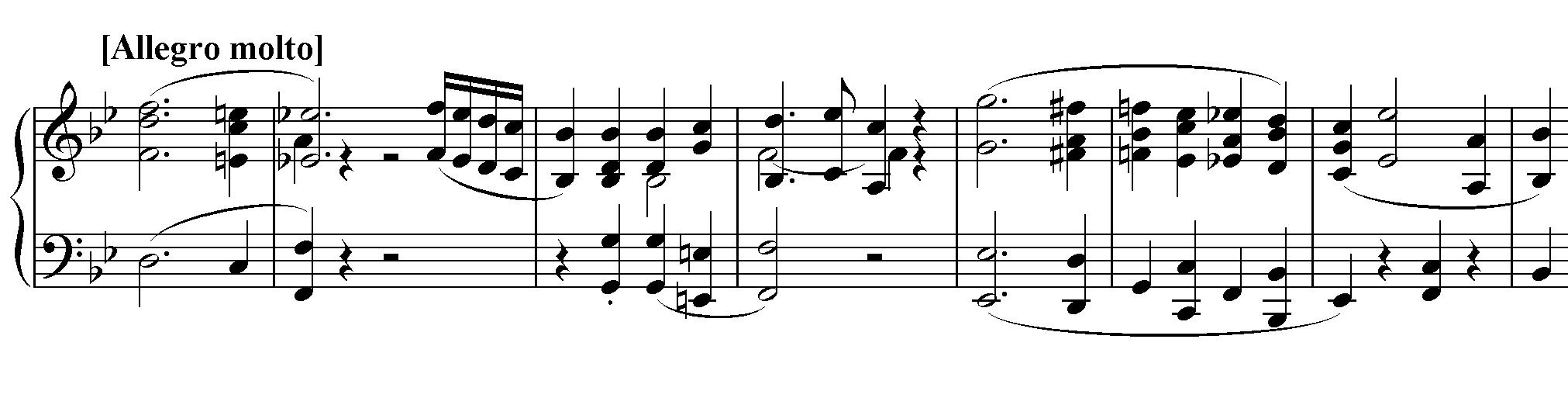 W.A.Mozart, symphony #40, part I, second theme (piano arrangement)